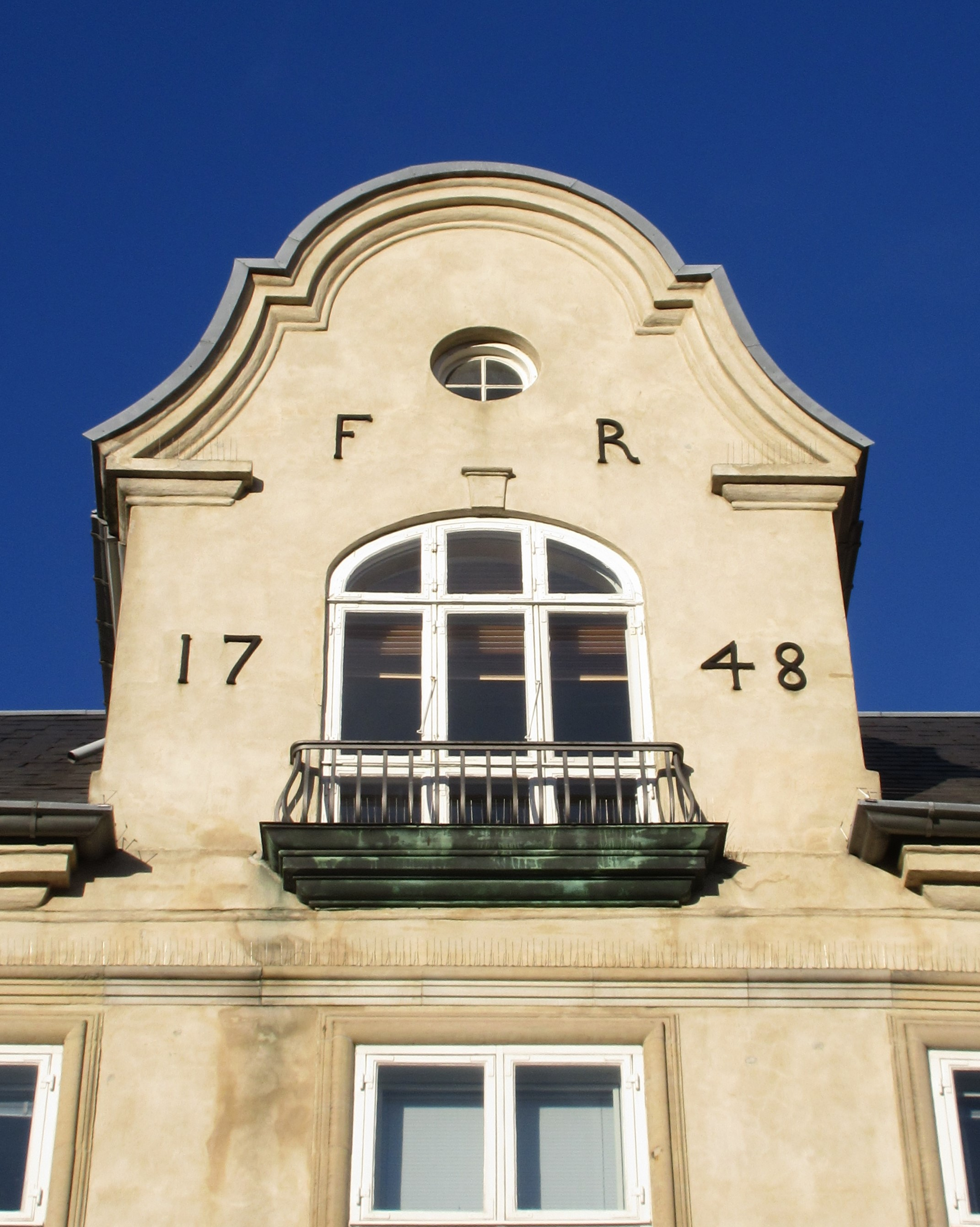 Hofkonditor Zieglers Gård in Copenhagen, Denmark